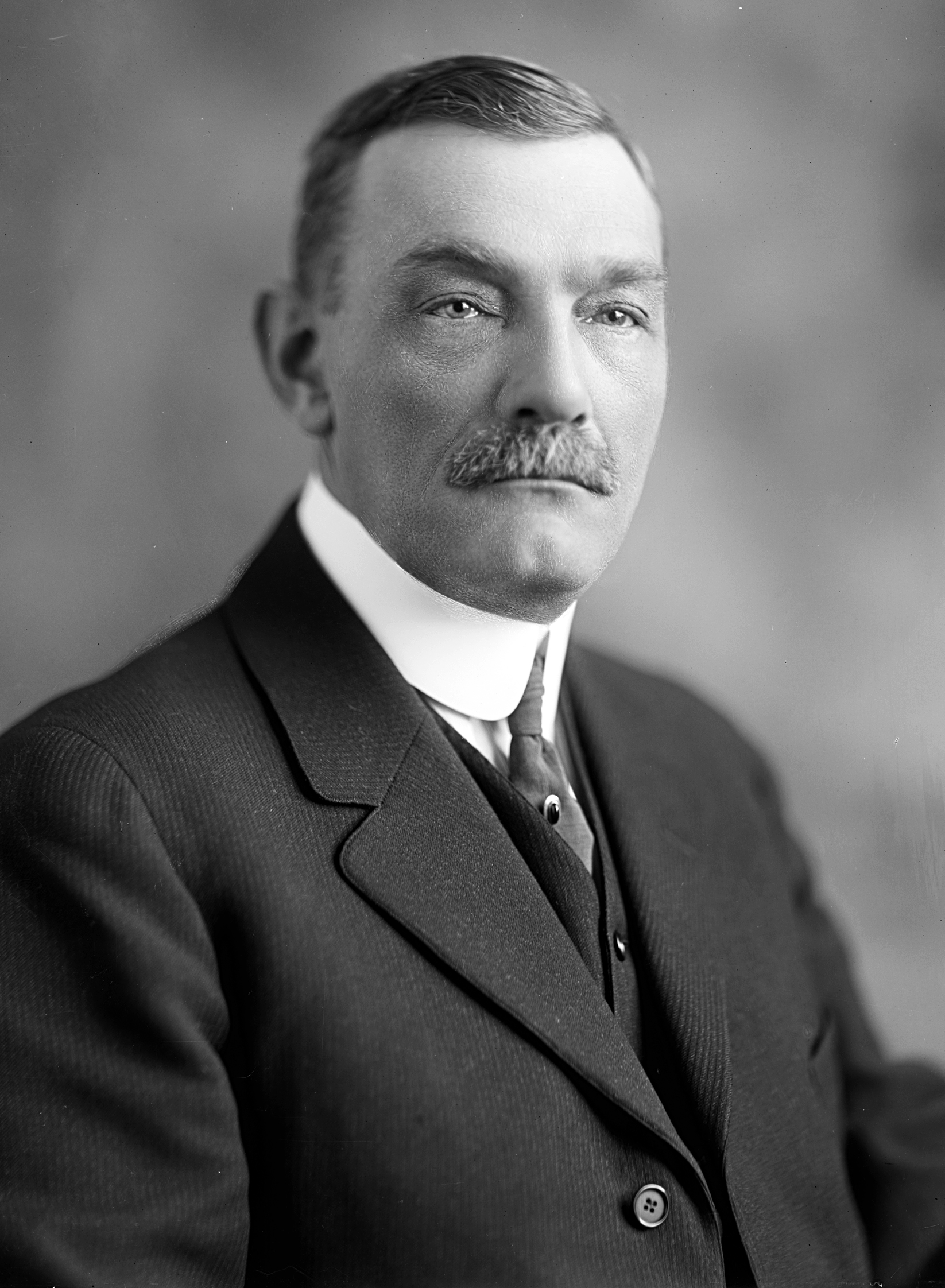 Jesse Price, US Representative from Maryland